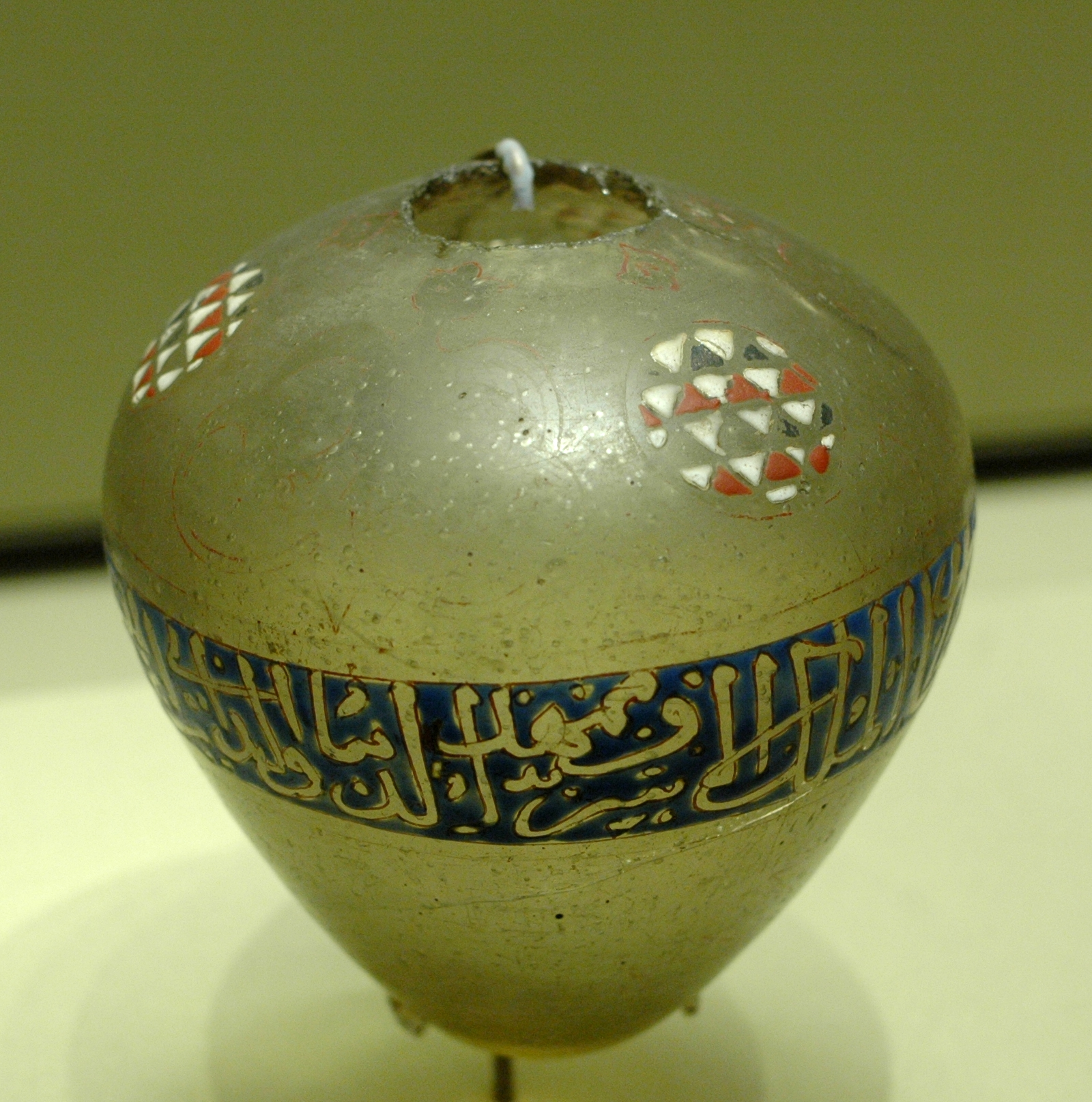 Glass container of unknown use, bearing the name of Sultan `Umar II of Yemen. Brocken neck. Molded glass, enameled and gilded decoration, Syria or Egypt, 1295-1297.